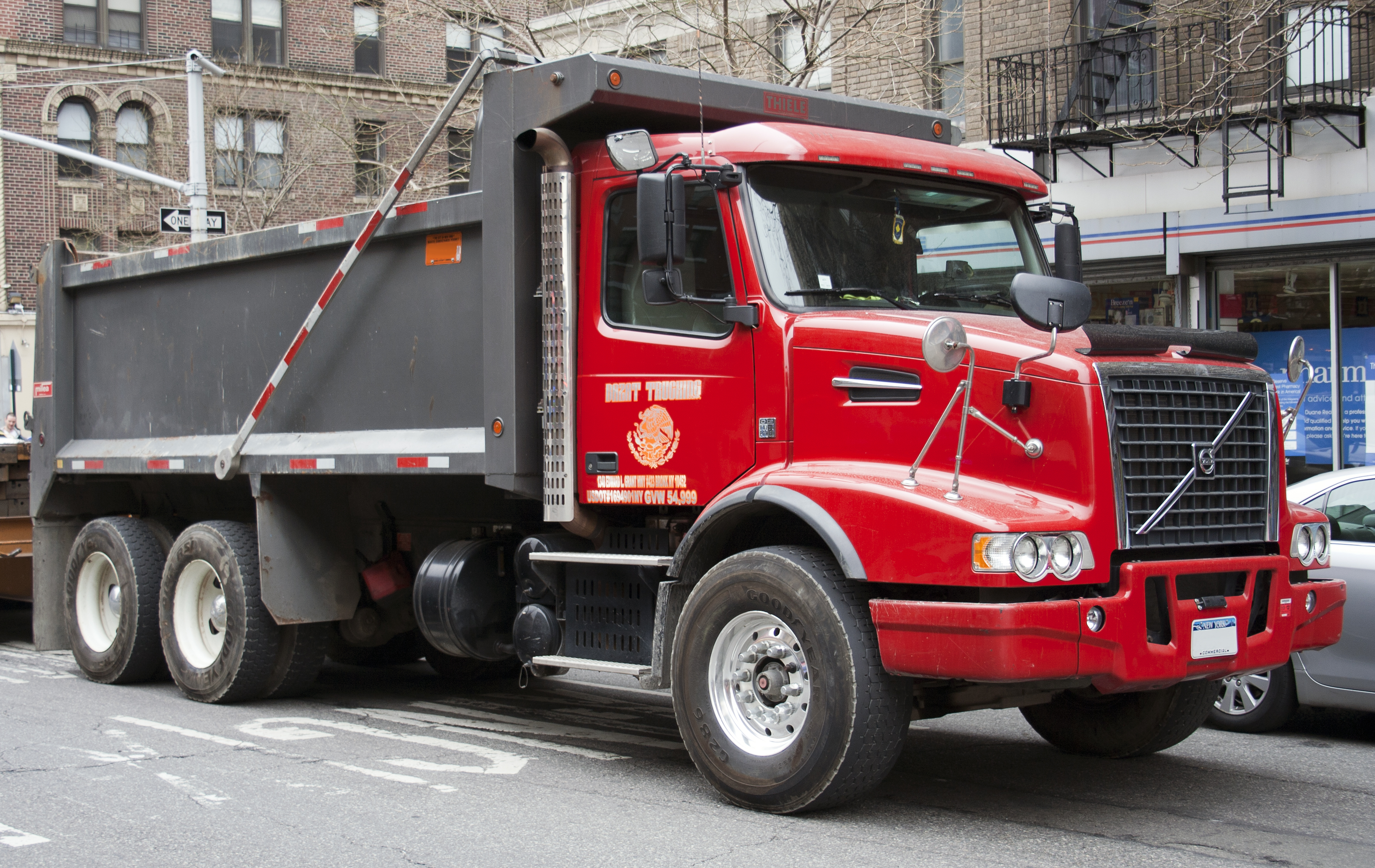 2010 Volvo VHD D13 dumper